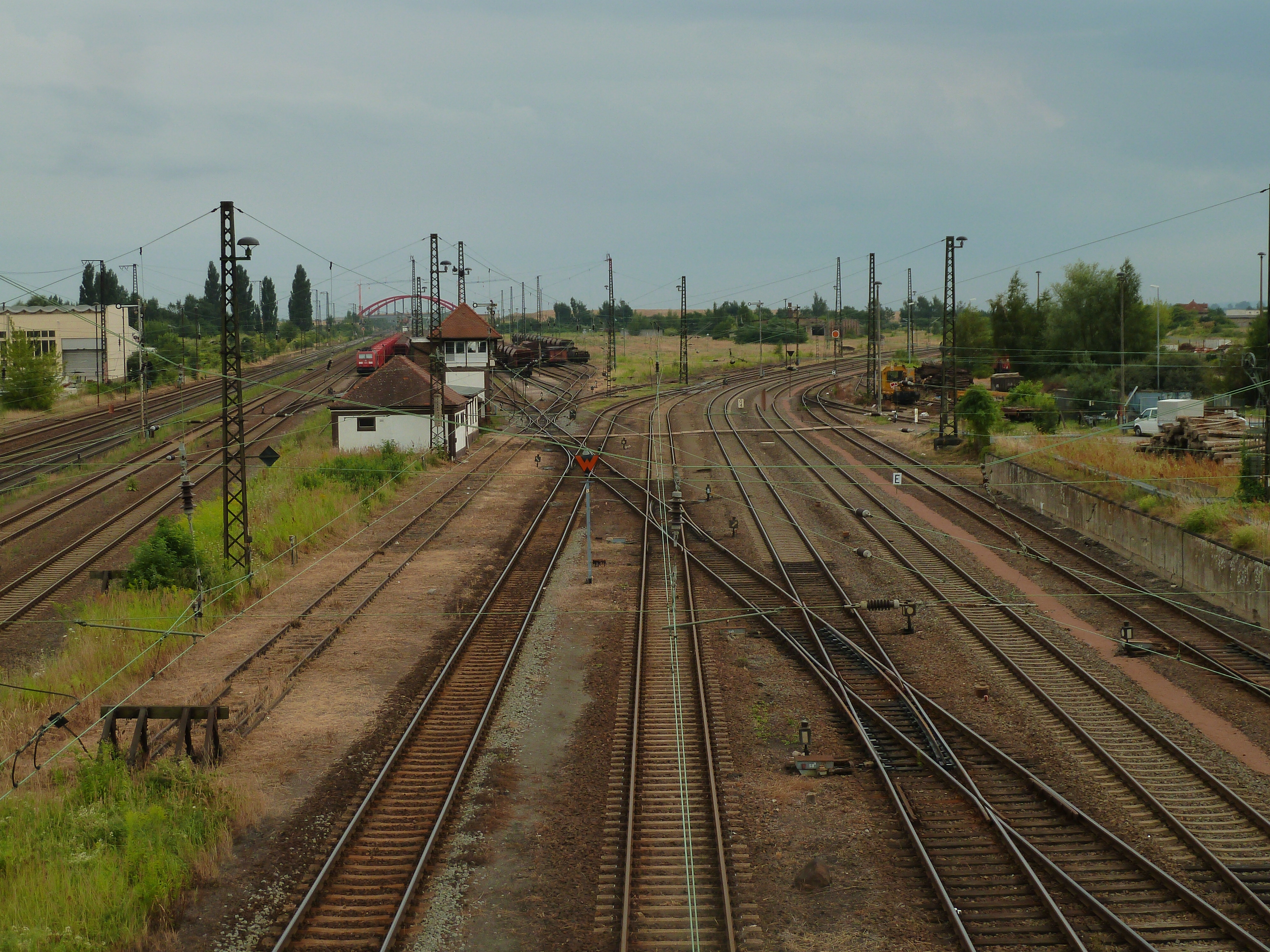 Köthen railway station, junction of the lines to Bernburg (right) and Halle